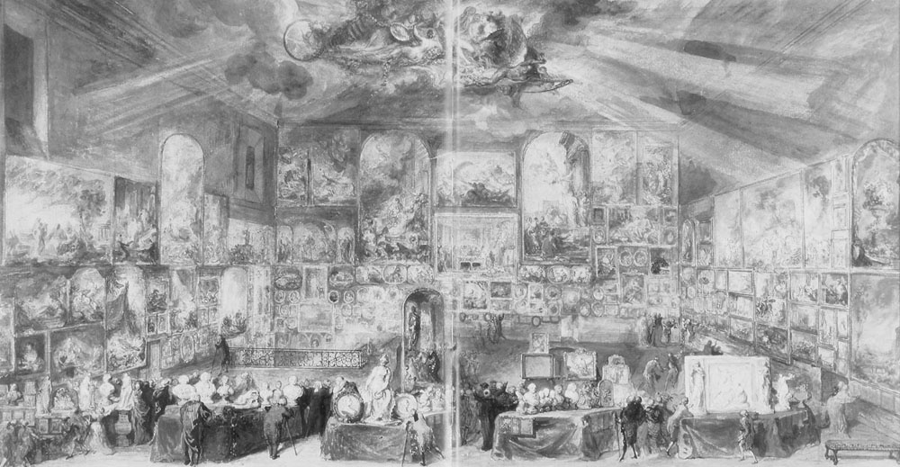 Interieur of the Exposition 1767 in the Salon Carée (Salon de Paris)